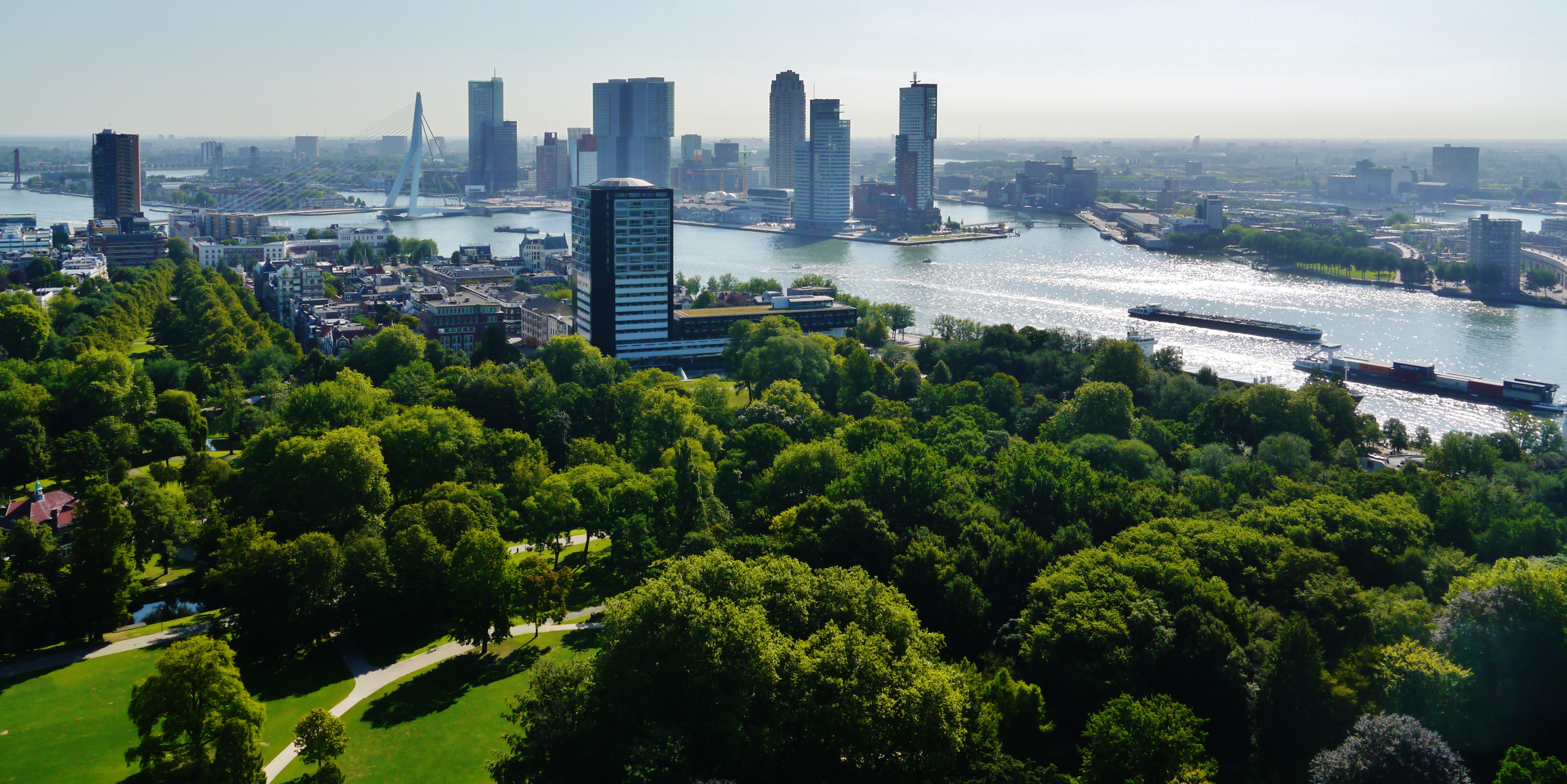 View from the Euromast to the South Cape, Rotterdam, Province of South Holland, Netherlands